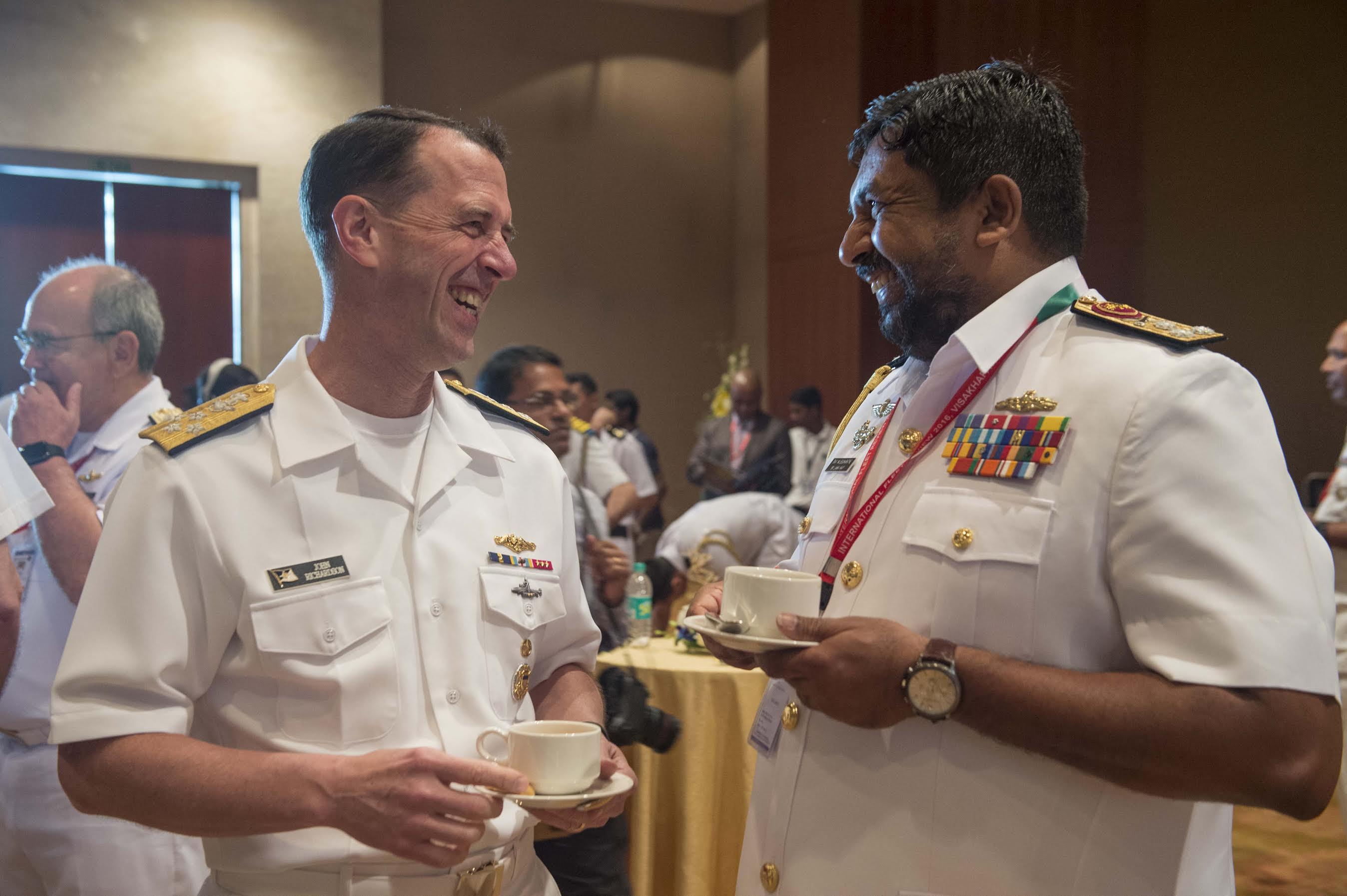 VISAKHAPATNAM, India (Feb. 5, 2016) Chief of Naval Operations Adm. John Richardson talks with the Commander of the Sri Lankan Navy, Vice Adm. Ravindra Wijegunaratne, during the welcoming ceremonies of India's International Fleet Review (IFR) 2016. IFR 2016 is an international military exercise hosted by the Indian Navy to help enhance mutual trust and confidence with navies from around the world. More than 50 navies around the world are participating, allowing the host nation an occasion to display its maritime capabilities and the "bridges of friendship" it has built with other maritime nations. (U.S. Navy photo by Mass Communication Specialist 3rd Class David Flewellyn/Released)